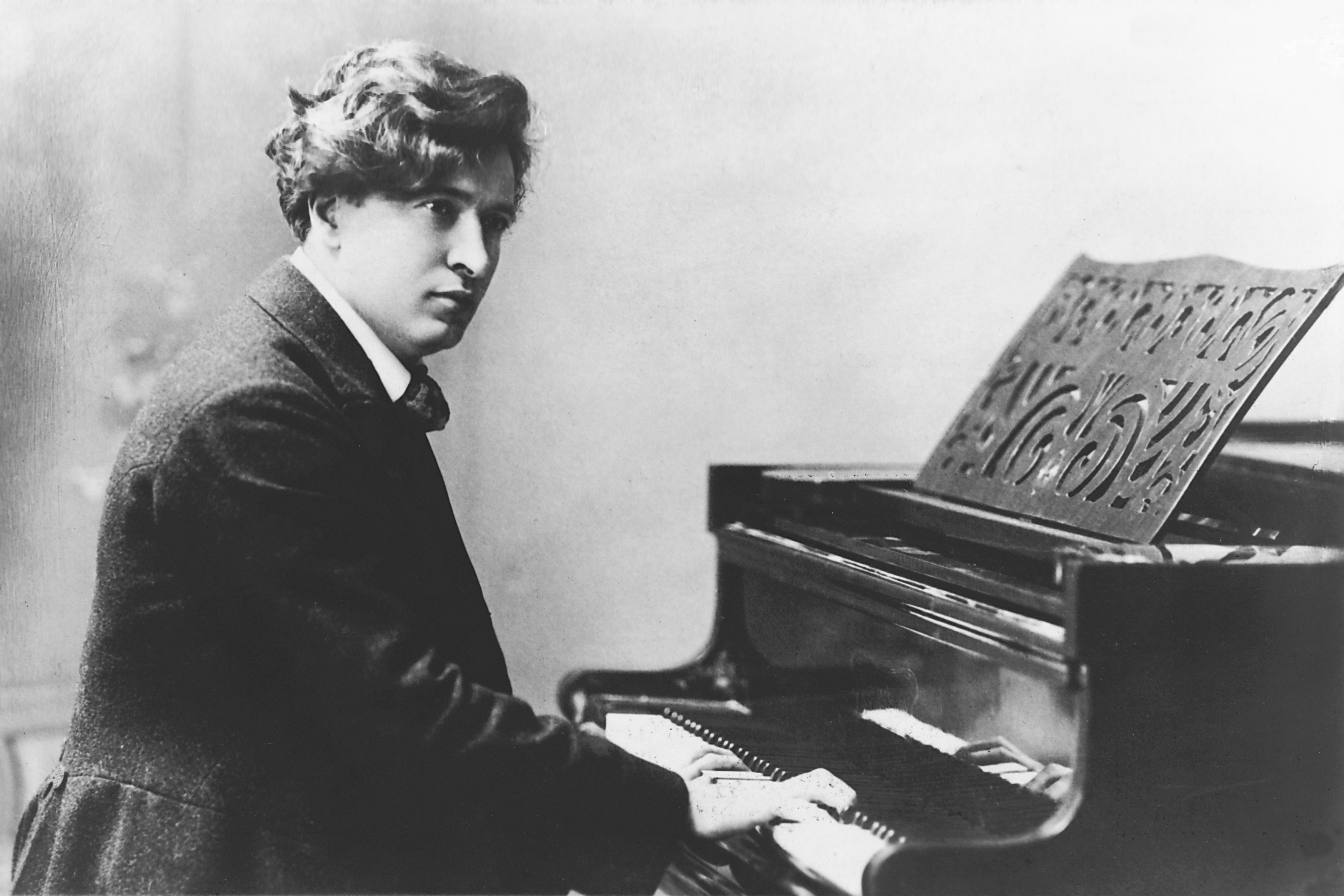 Postcard showing Ferruccio Busoni, half-length portrait, seated at piano, facing right